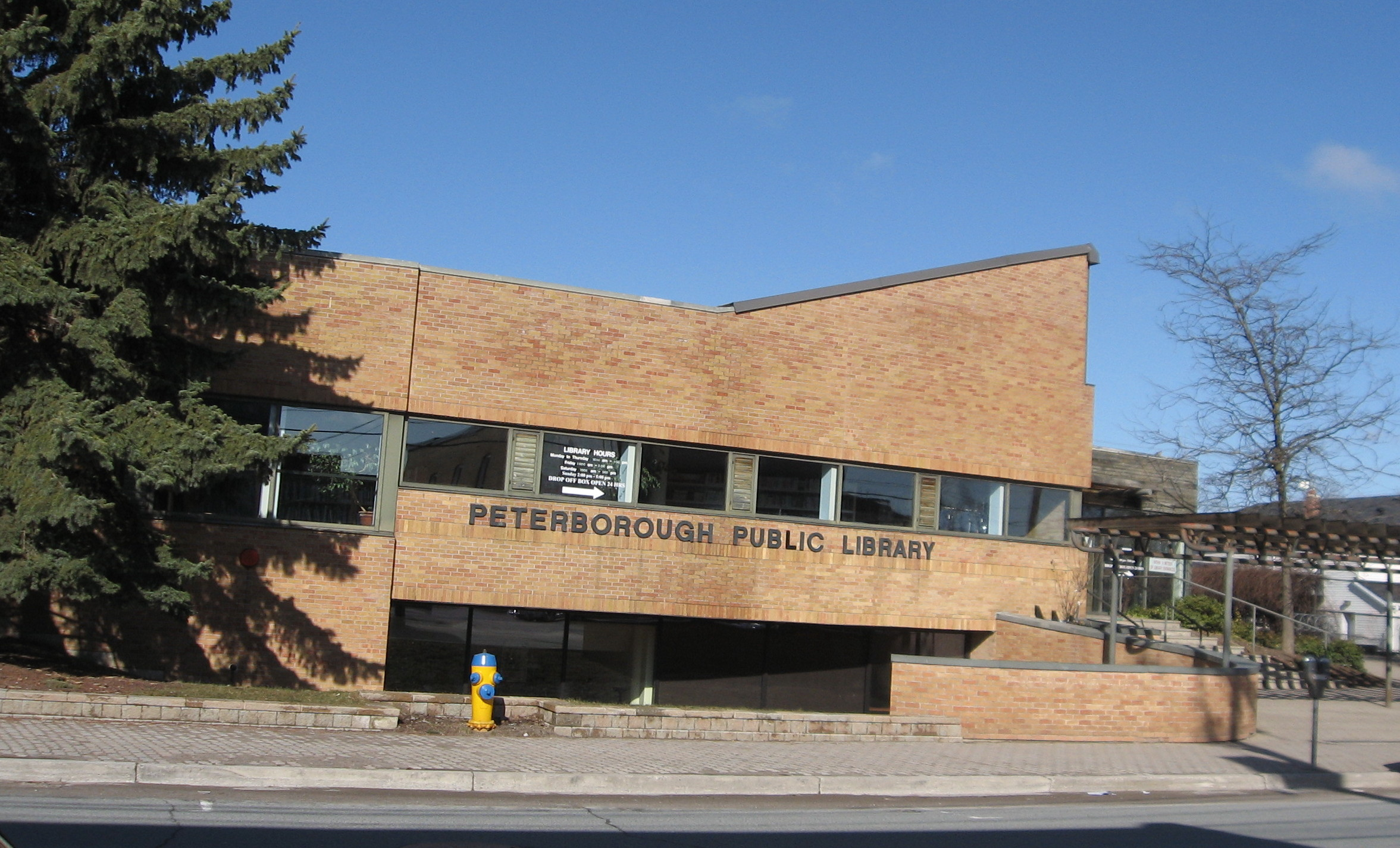 Peterborough Public Library, Peterborough, Ontario. Picture taken on Aylmer St., looking north-west.